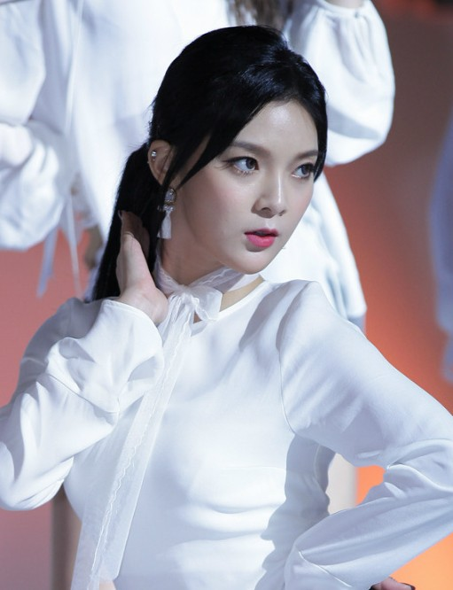 Sojin at Korean Wave Fashion Festival, 28 November 2015